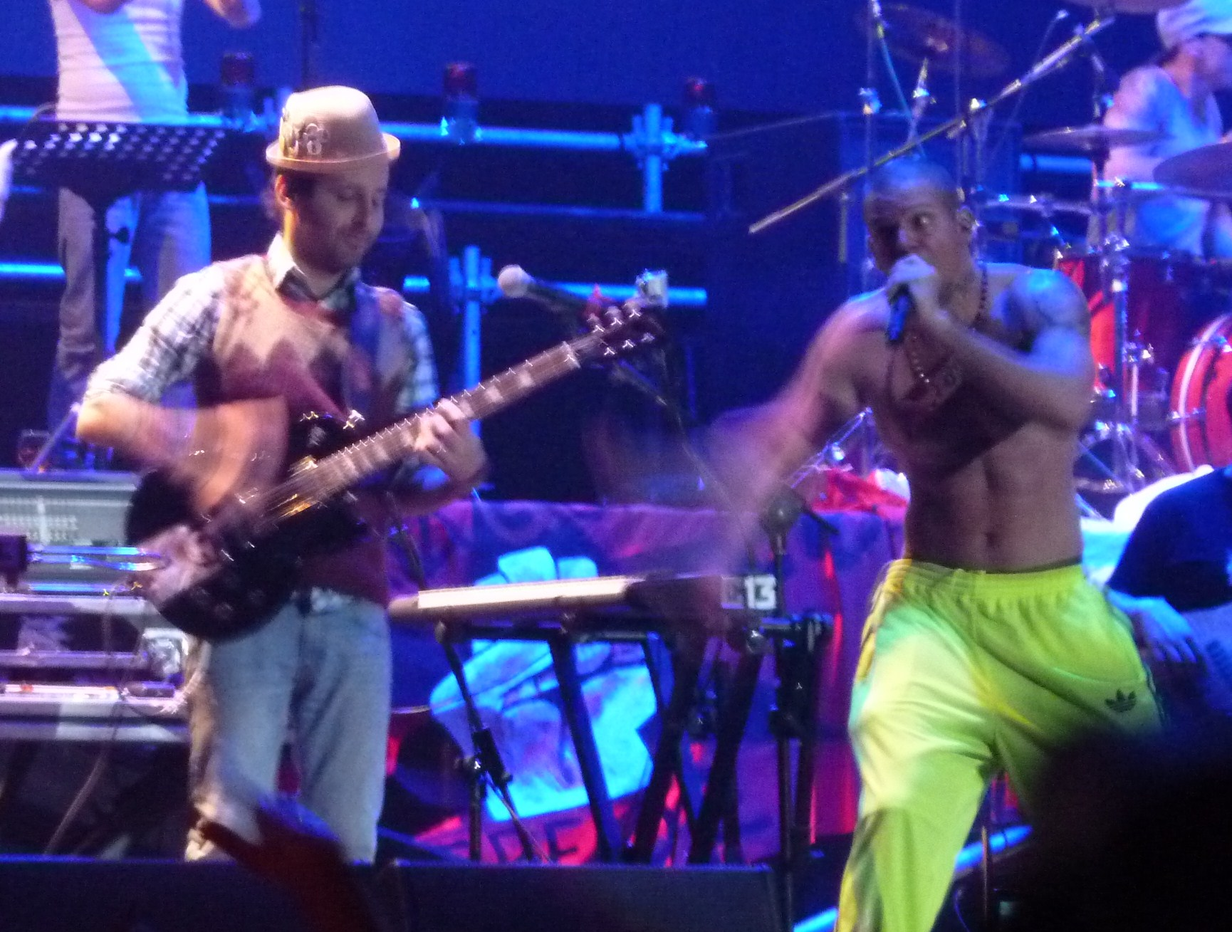 Calle 13 performing in Santiago, Chile on September 6, 2011.